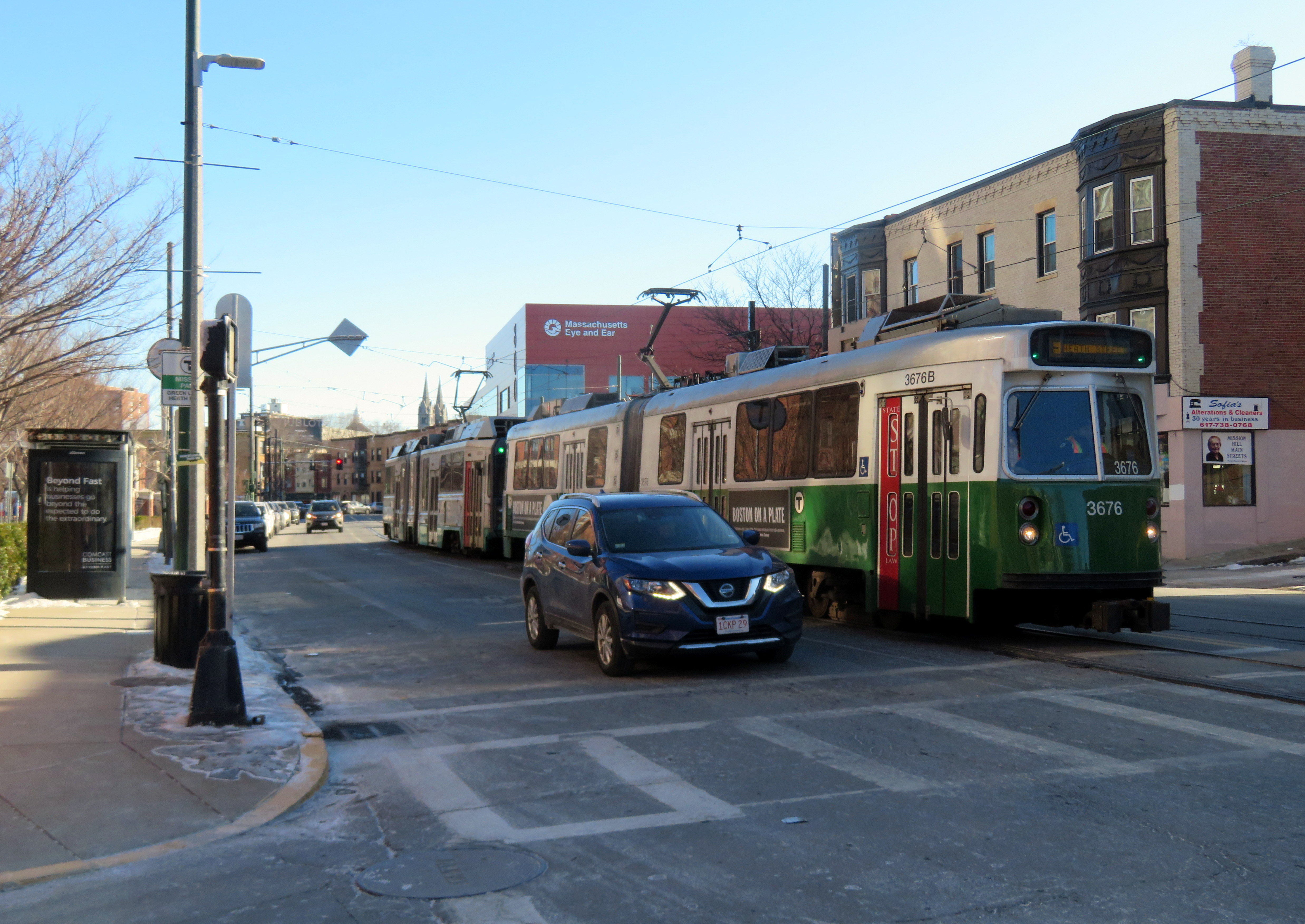 An outbound train at Mission Park in December 2019